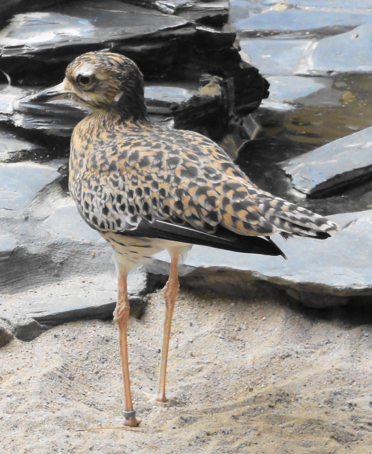 Spotted Thick-knee in Zoo Frankfurt, Germany